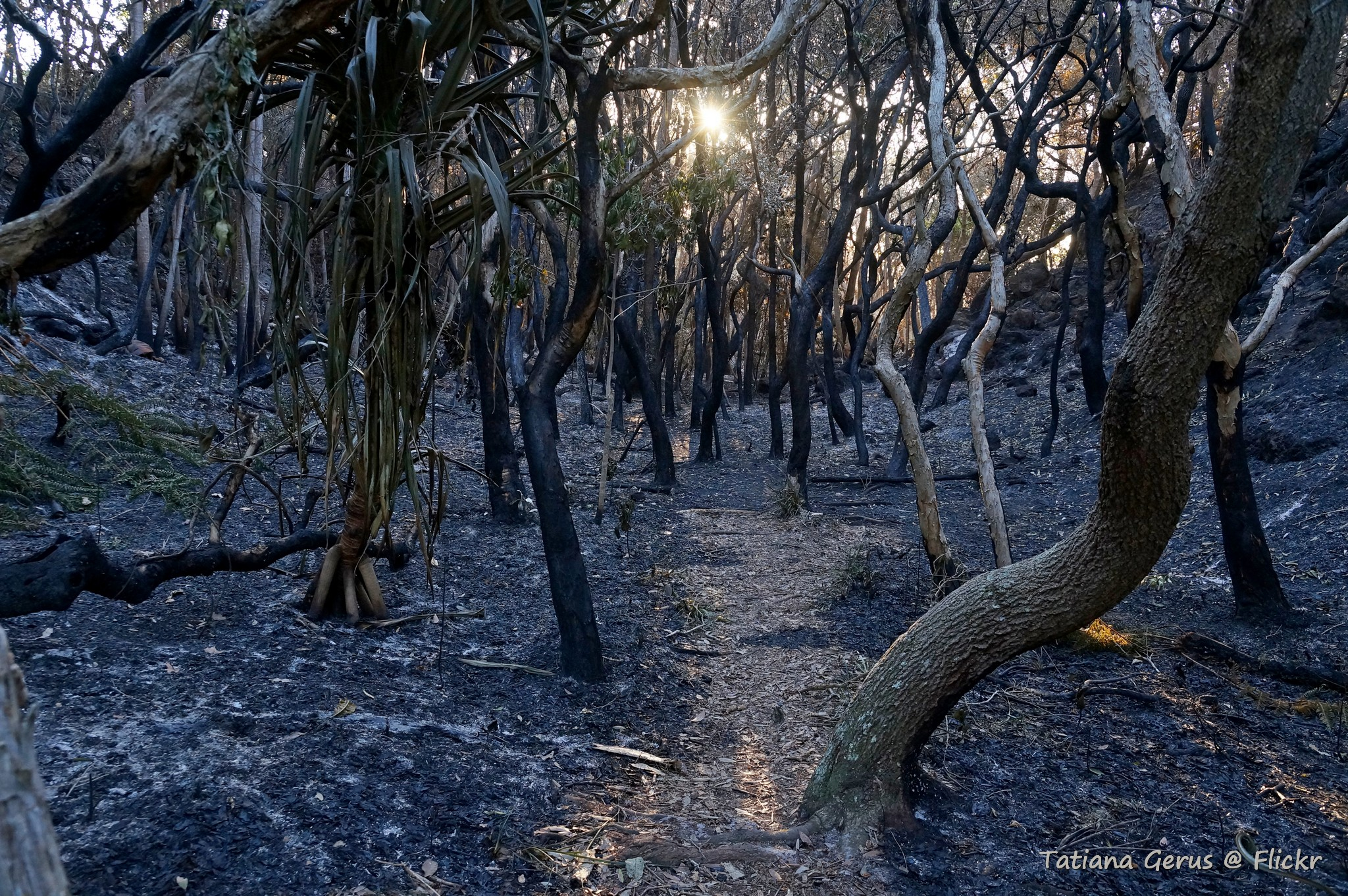 In September 2019, We came here the next day after the bush-fire swept the forest south of Yamba NSW Australia. The area was already open, and we could see all the aftermath. Smoke and flame still here. However I could observe that the trees are alive and they will recover quickly (many banksias) The Crescent Angourie.